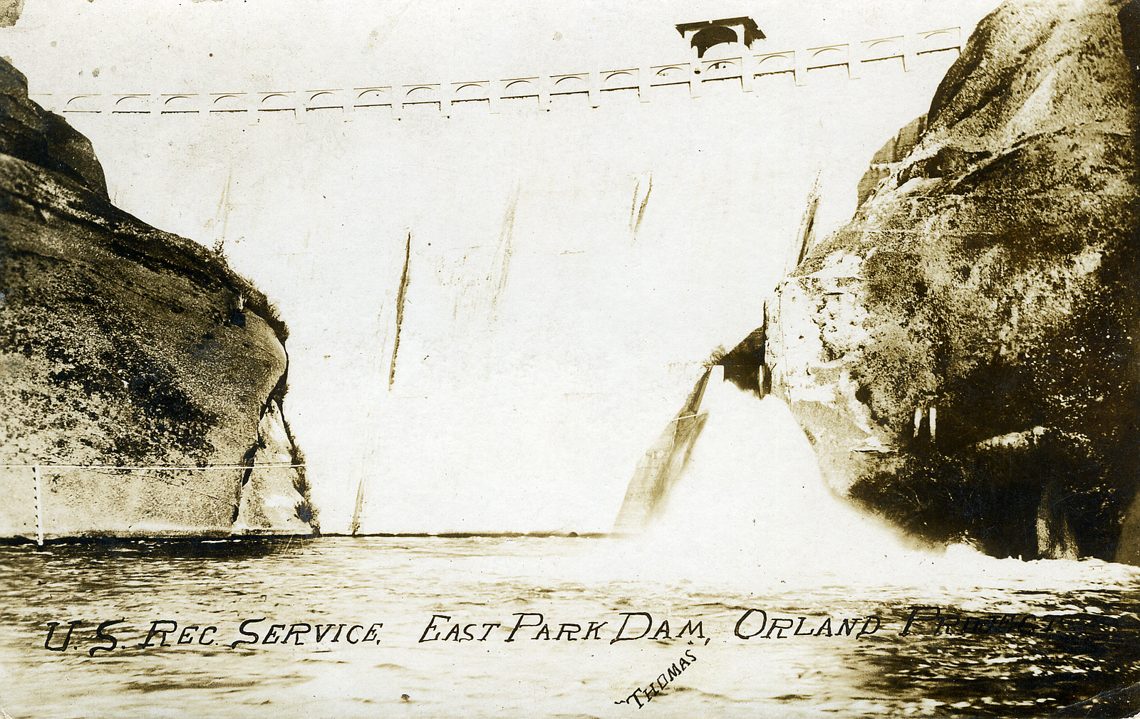 East Park Dam near Orland, California, top of spillway